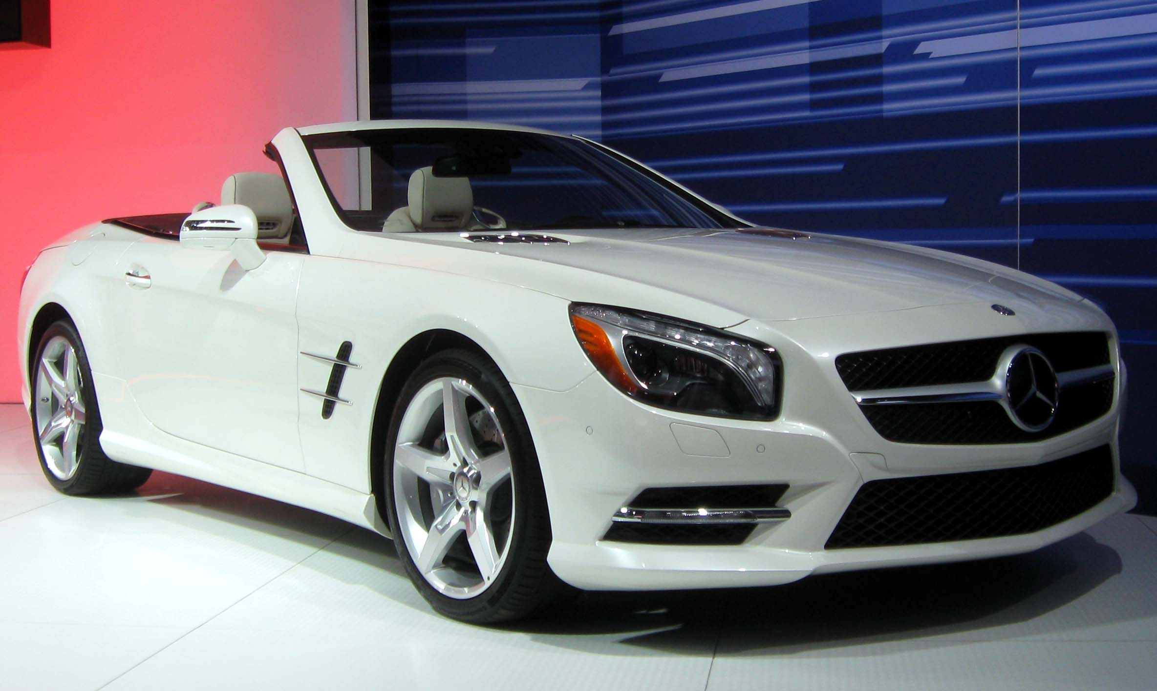 2013 Mercedes-Benz SL photographed at the 2012 New York International Auto Show.